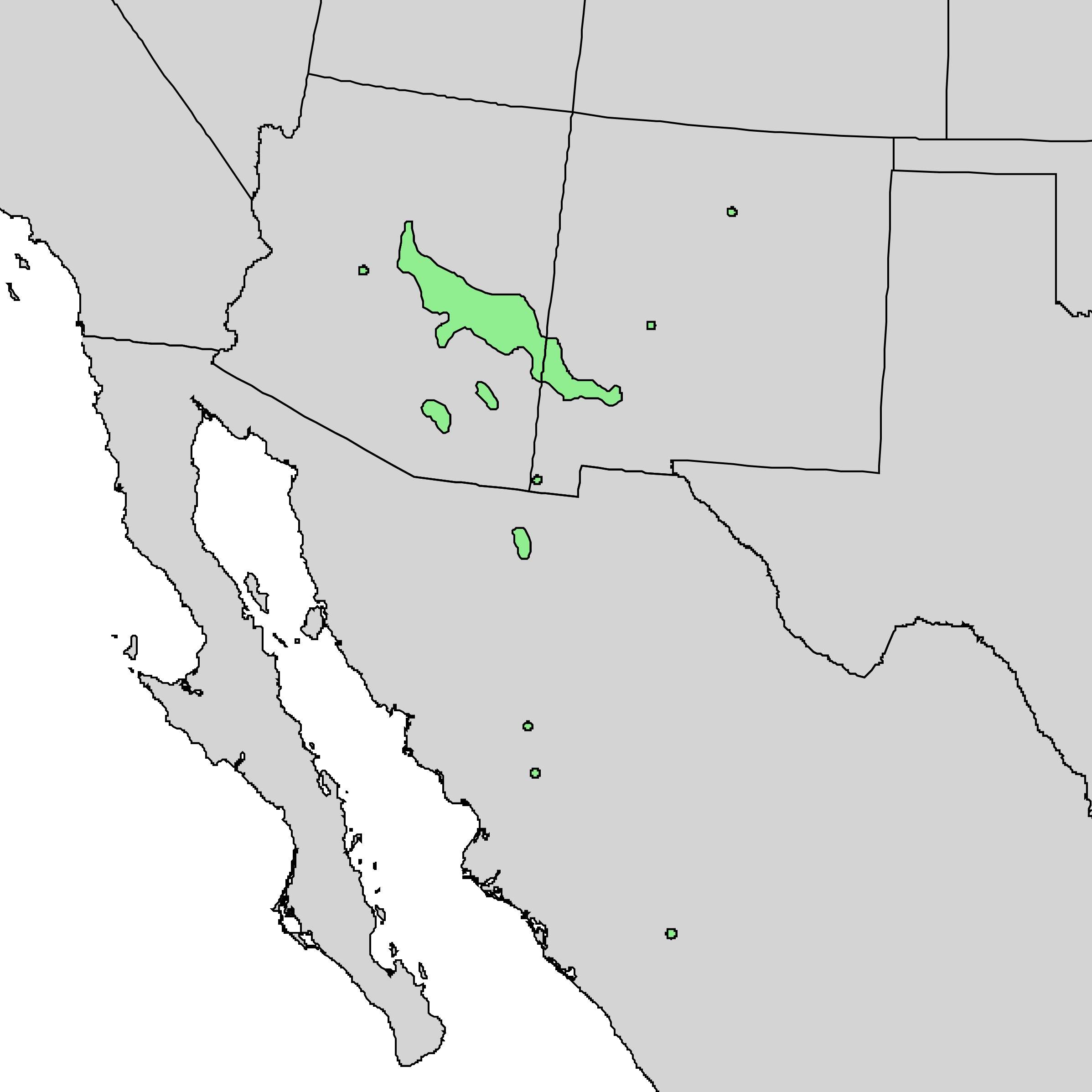 Natural distribution map for Alnus oblongifolia